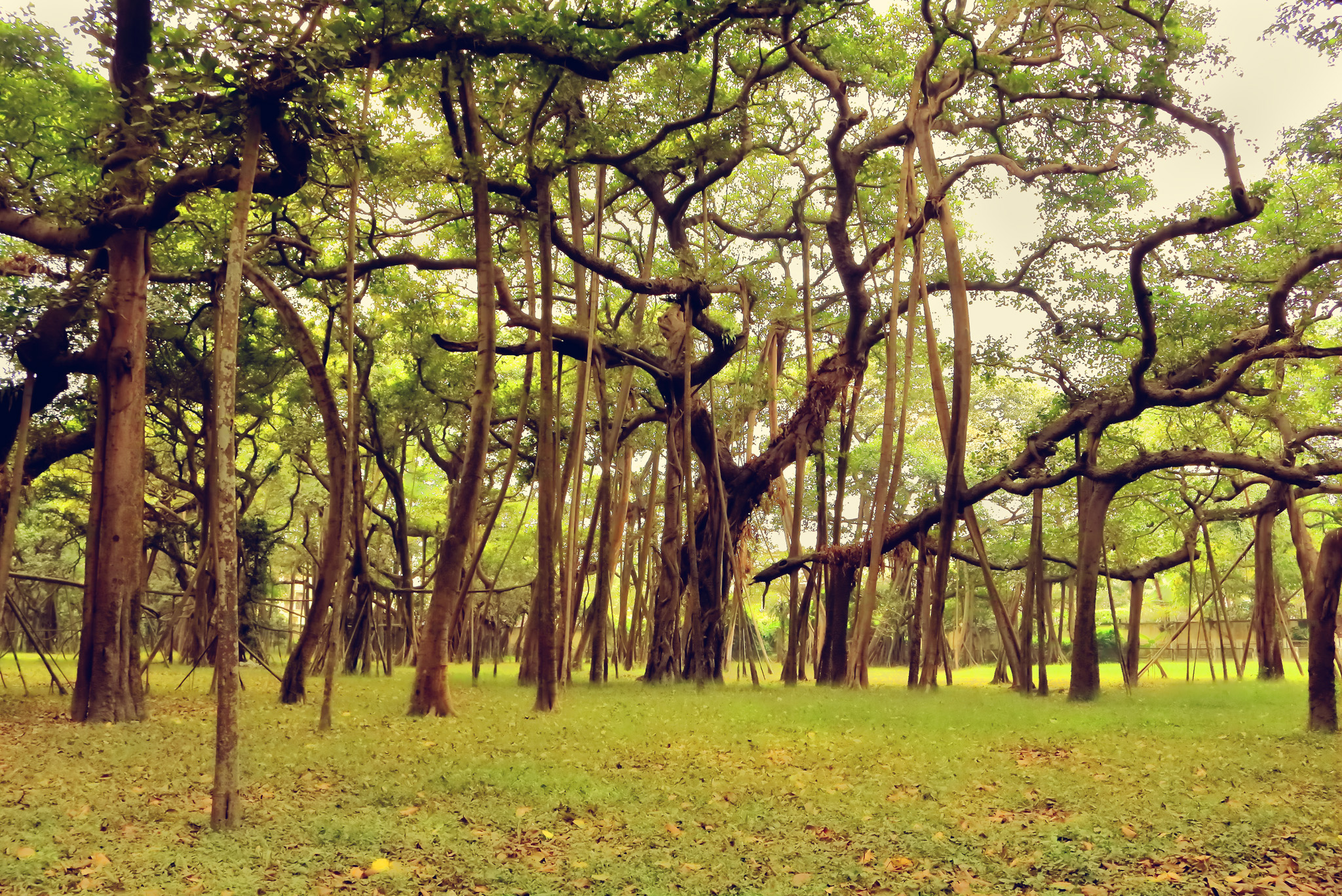 The Great Banyan Tree is over two hundred and fifty years old and covers about 14,500 square meters of land (3.5 acres) in the Acharya Jagadish Chandra Bose Botanical Garden near Kolkata (Calcutta), making it the widest tree in the world.